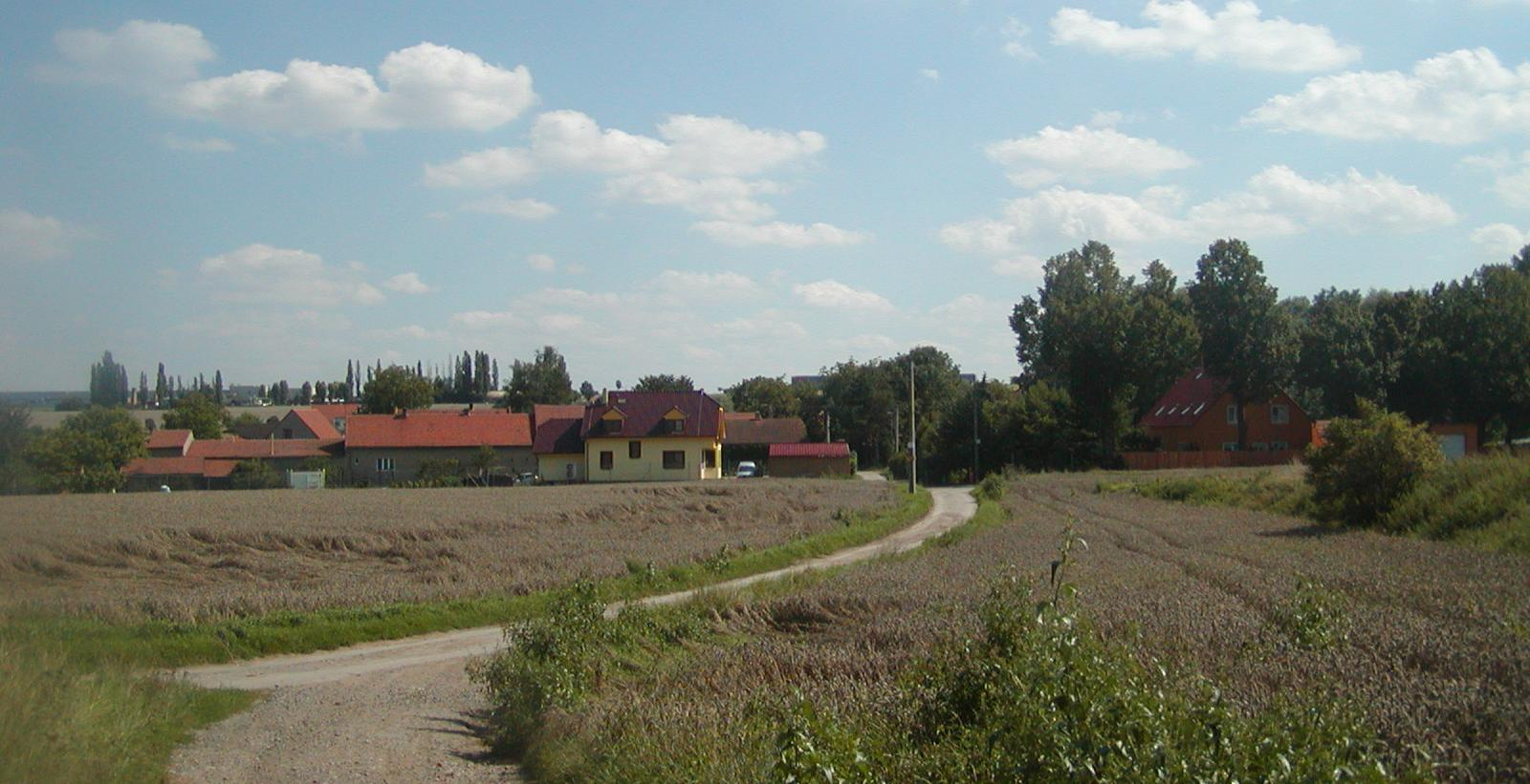 Černovičky settlement, part of Středokluky municipality, Prague-West District, Czech republic